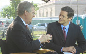 CNN American Morning anchor, Bill Hemmer interviews Senator McConnell on his memories of President Ronald Reagan.